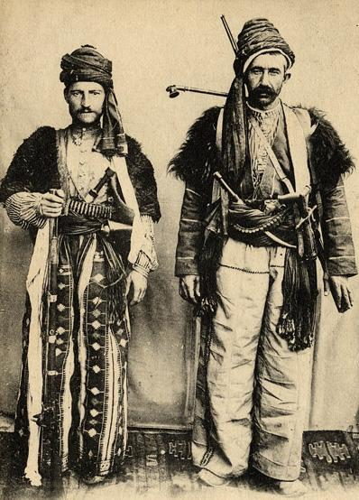 A postcard by the Cappucin mission in Mesopotemia of two Chaldean men from the villages surrounding the town of Mardin in South East Turkey, along the Syrian border. Chaldean Christians recognize the Pope as the head of the Universal Church. They split from the Assyrian (Nestorian) Church in the sixteenth century. Chaldean Christians are found in largest concentrations in Iraq, Syria, Lebanon, the United States (Detroit), Europe, and Australia. The head of the Church, the Patriarch, resides in Baghdad with the title of "the Patriarch of Babylon". He has the rank of a Cardinal in the Catholic church. Their liturgy is in Aramaic.